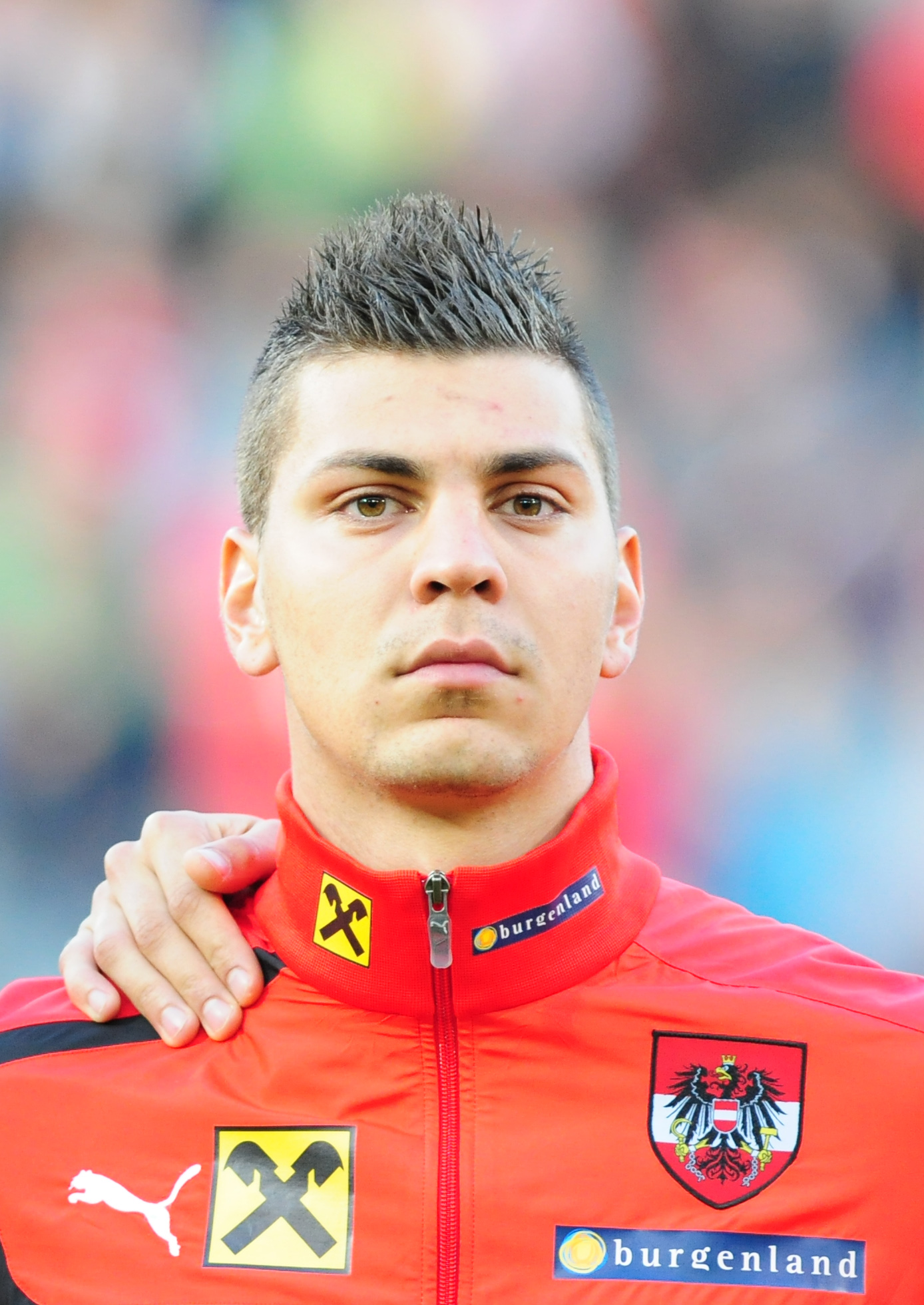 Exhibition game Austria vs. Romania at 5st. June 2012